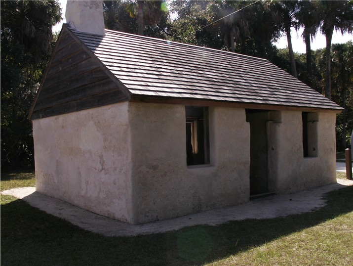 This is the slave house that has been refurbished at Kingsley Plantation, Florida, USA. This house is larger than the others as it housed the overseer, who was himself a slave, and his family. This house had three large rooms for sleeping and eating and a brick fireplace double the size of the fireplaces in the smaller houses for cooking and heat. Note the tabby has been covered by a lime plaster. A few of the other ruined houses are also covered in the plaster as well. Photo taken at Kingsley Plantation in 2006.